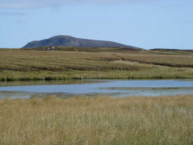 The Migneint Out in the middle of the wild,wet Migneint lies lonely, lovely Llyn Serw, with Arenig Fawr showing behind